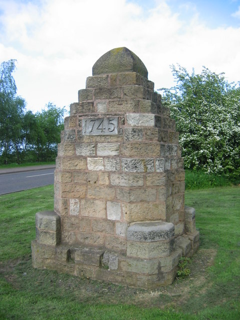 Cairn in memory of Battle of Prestonpans 1745